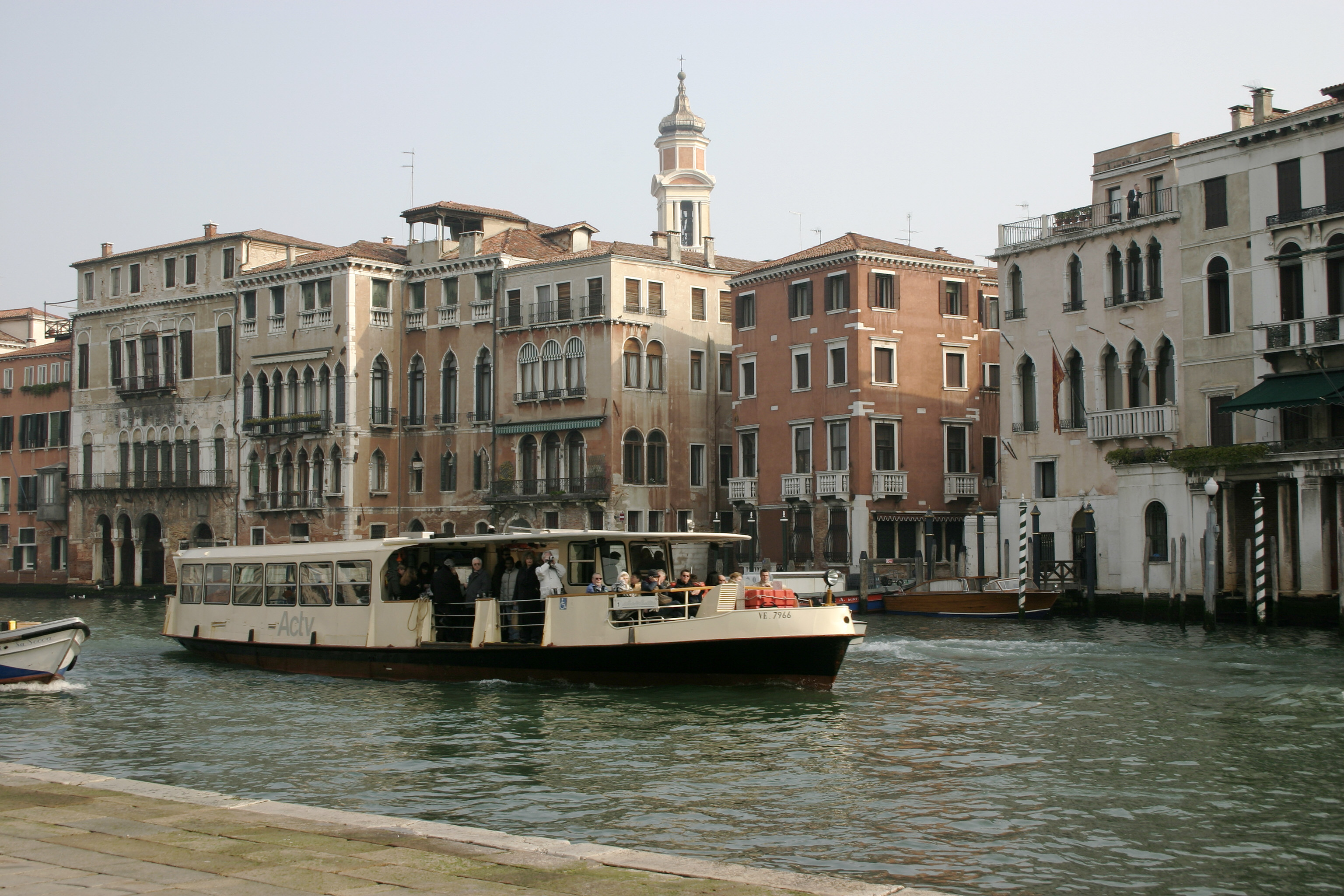 Venice - Grand Canal